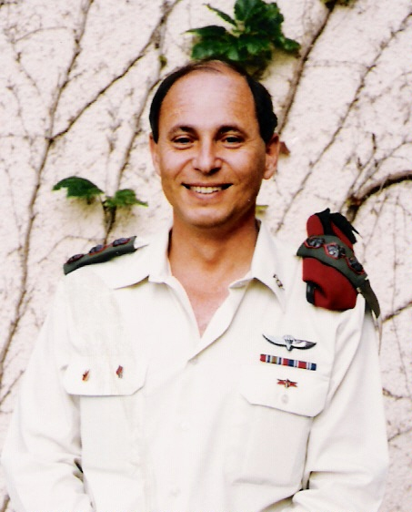 Portrait Heyman in IDF